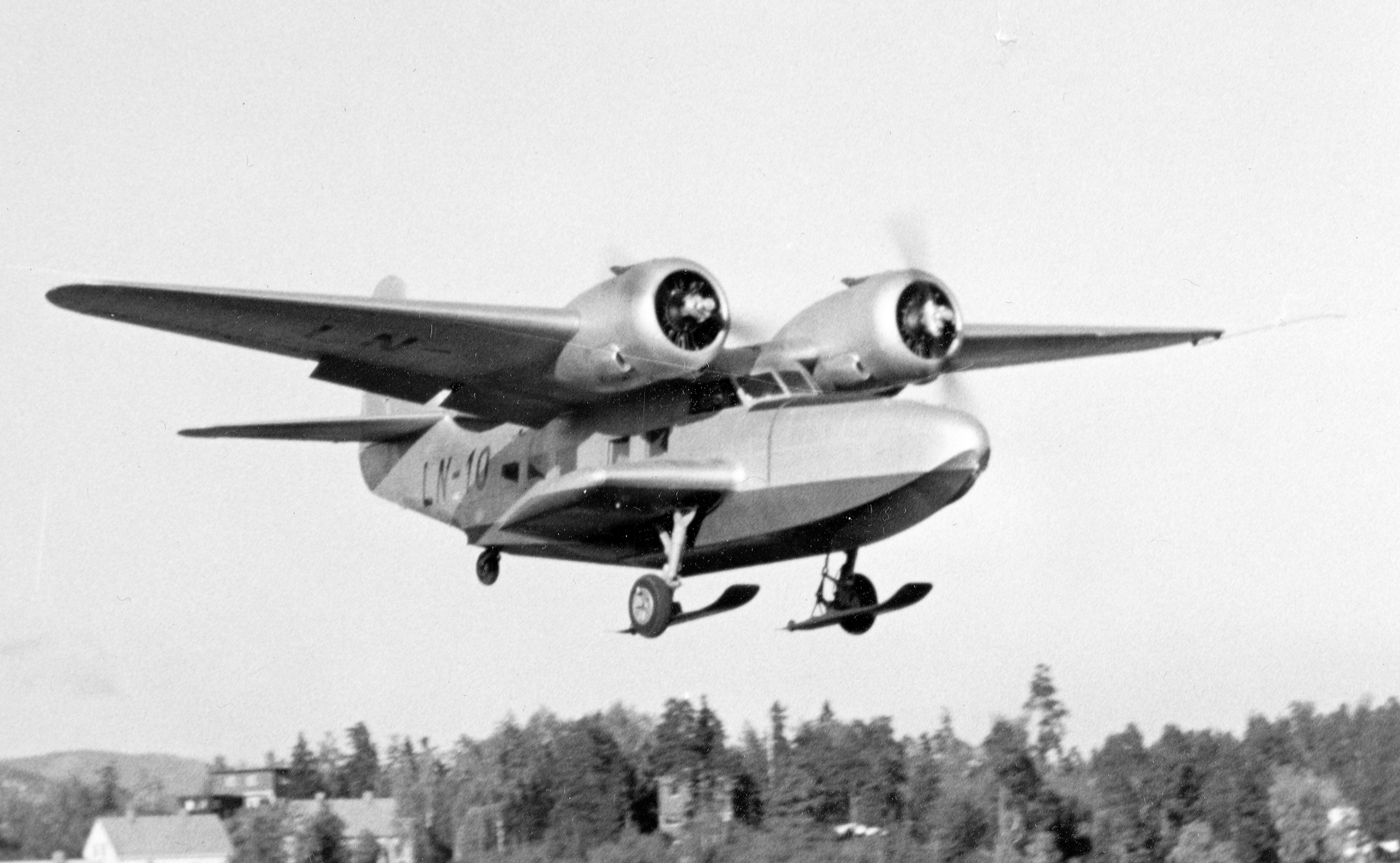 Amphibious aircraft Norsk Flyindustri Finnmark 5-A in the air.